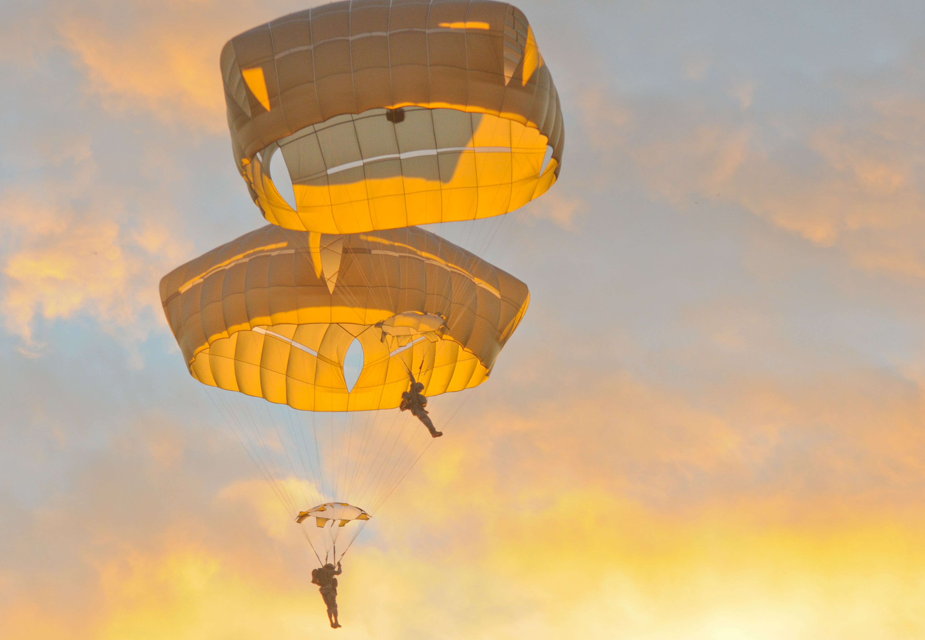 Paratroopers from the 4th Infantry Brigade Combat Team (Airborne), 25th Infantry Division, jump from a U.S. Air Force C-17 Globemaster over Malamute Drop Zone, the primary drop zone for Joint Base Elmendorf-Richardson, Alaska, Sept. 19, 2013. Senior leaders and riggers from the Spartan Brigade jumped from the aircraft to demonstrate a vote of confidence with the T-11 parachute as the brigade switches from the T-10. (Photo by U.S. Army Sgt. 1st Class Jason Epperson, Released) Date Taken:09.19.2013 Date Posted:09.24.2013 20:46 Photo ID:1025360 VIRIN:130919-A-RK974-400 Resolution:3883x2687 Size:4.21 MB Location:JOINT BASE ELMENDORF-RICHARDSON, AK, US Read more